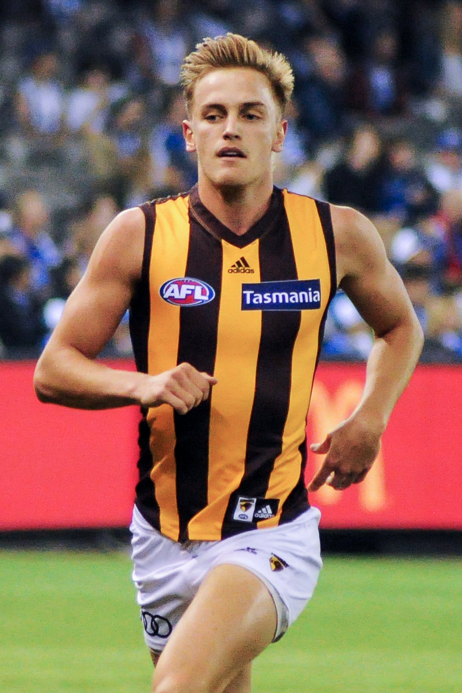 Harry Morrison during the AFL round five match between North Melbourne and Hawthorn on Sunday, 22 April 2018 at Etihad Stadium in Melbourne, Victoria.